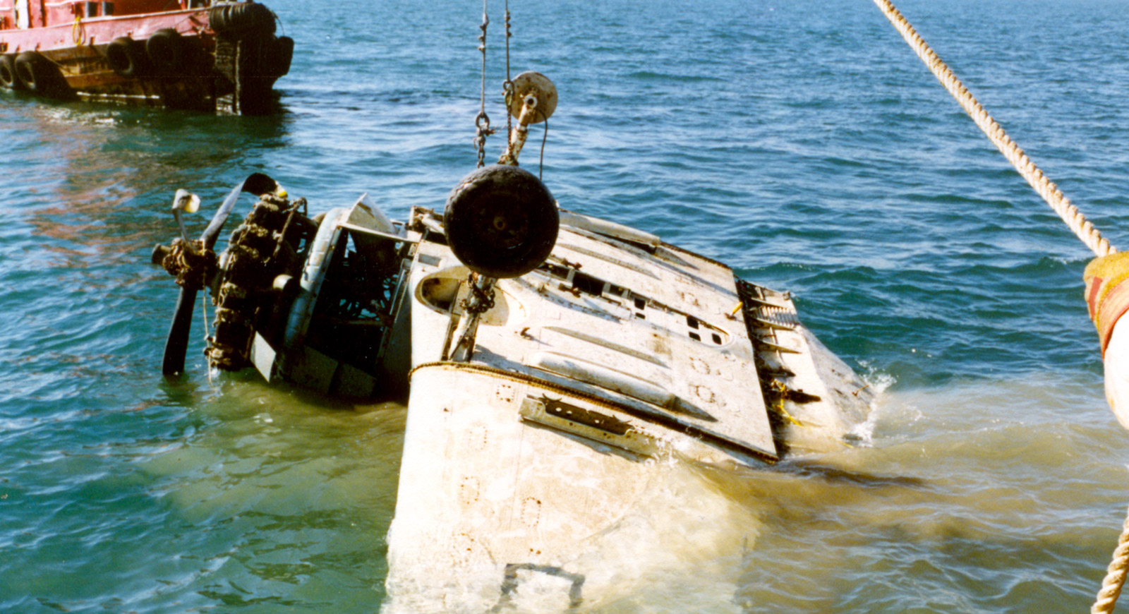 During WWII Lake Michigan was home to a Navy Aircraft Carrier training program, with two converted sidewheel steamers as carriers. During training, many aircraft had the inevitable accidents. These wrecks remained on the bottom of Lake Michigan for decades. Starting in the 1980’s the history of these wrecks began to circulate. Soon a mini-treasure hunt was on – One of these wrecks could bring as much as $100,000 for the parts alone. Some were salvaged legally, others not. I was involved in a NAVY sponsored salvage operation in the early 1990’s - the goal was to provide an acceptable warbird for the Palm Springs Air Museum. We salvaged this SBD-5 Dauntless Dive Bomber from 110 feet.